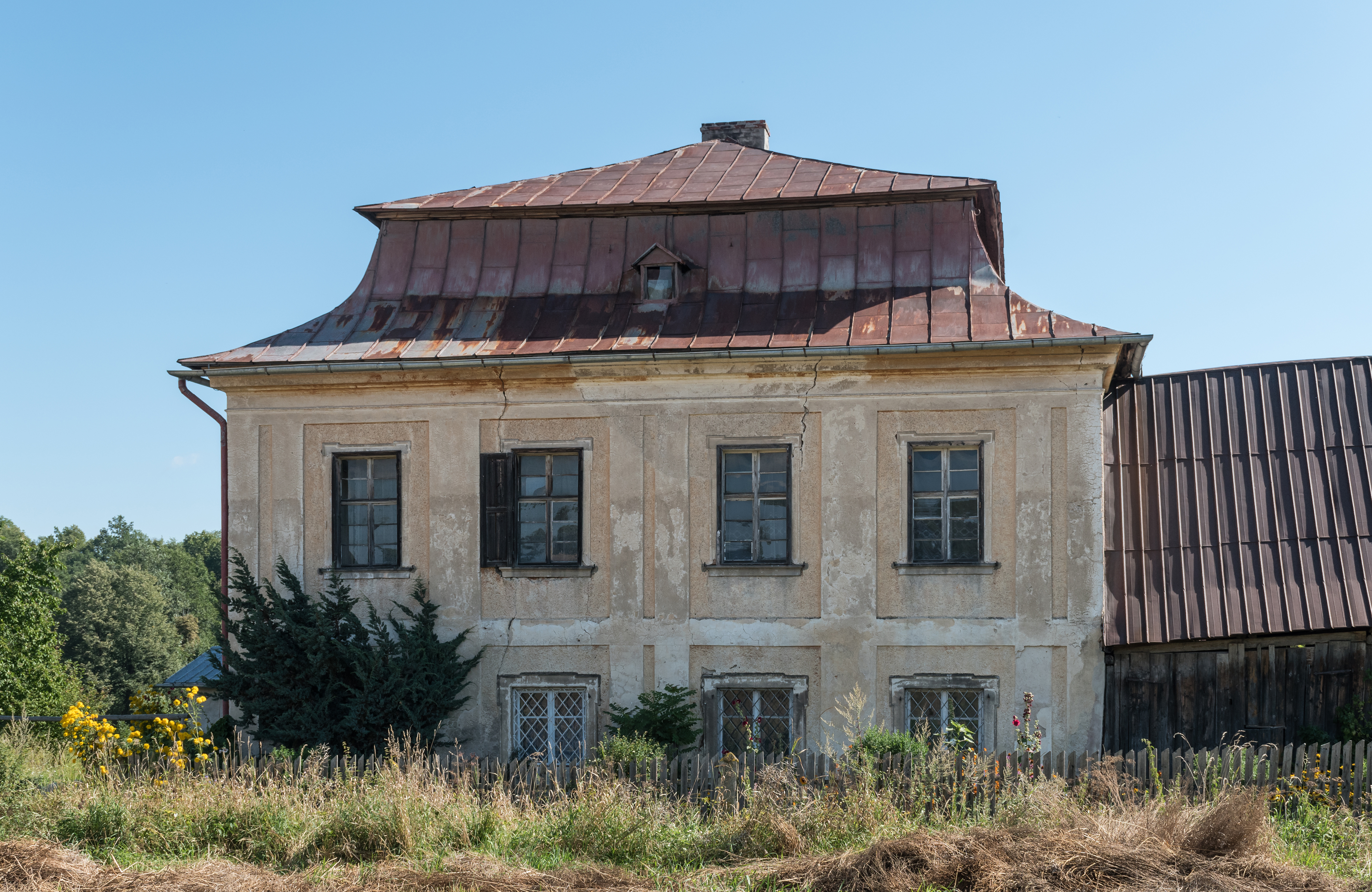 House No. 103 in Pławnica, former manor outbuilding Wikidata has entry Q18614097 with data related to this item.